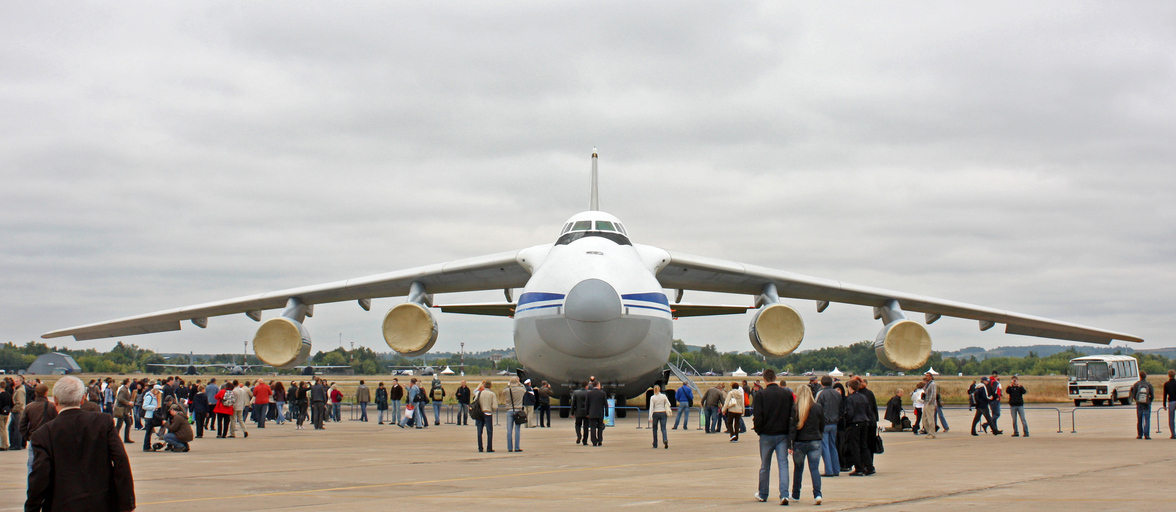 Antonov An-124 "Ruslan" (The international aerospace salon MAKS-2009)